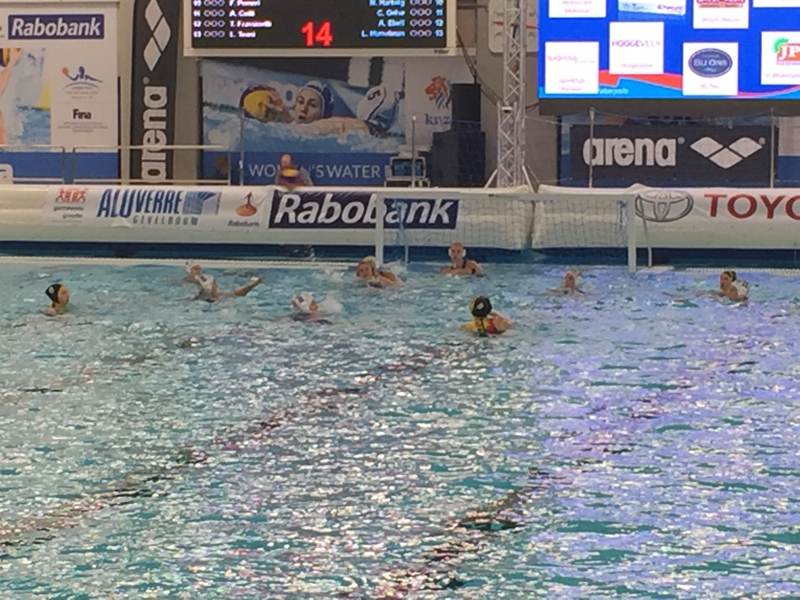 2016 Water Polo Olympic Qialification tournament ITA-GER